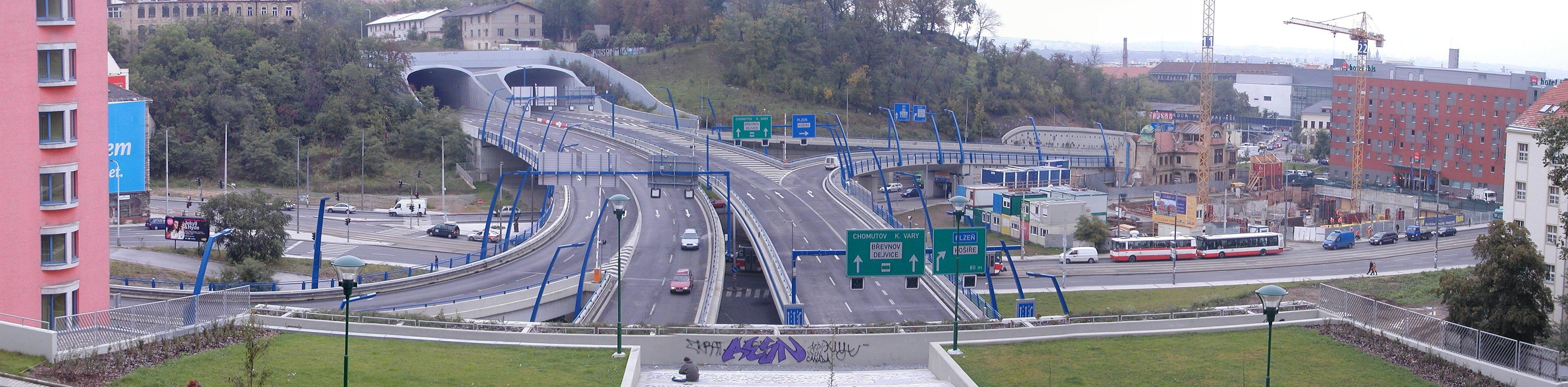 Interchange on Prague inner-city ring road near Smíchov. From above: Strahovský tunnel, Mozart's bridge, under place where photo was taken ring road continues in tunnel Mrázovka.